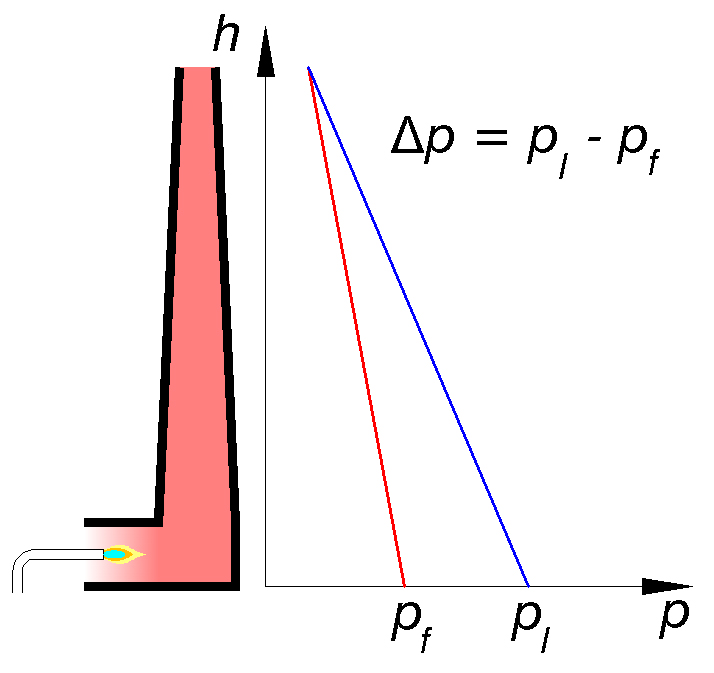 Sketch of a chimney